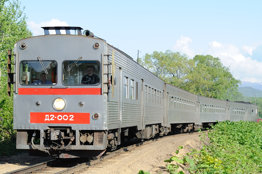 Д2 in Sokol